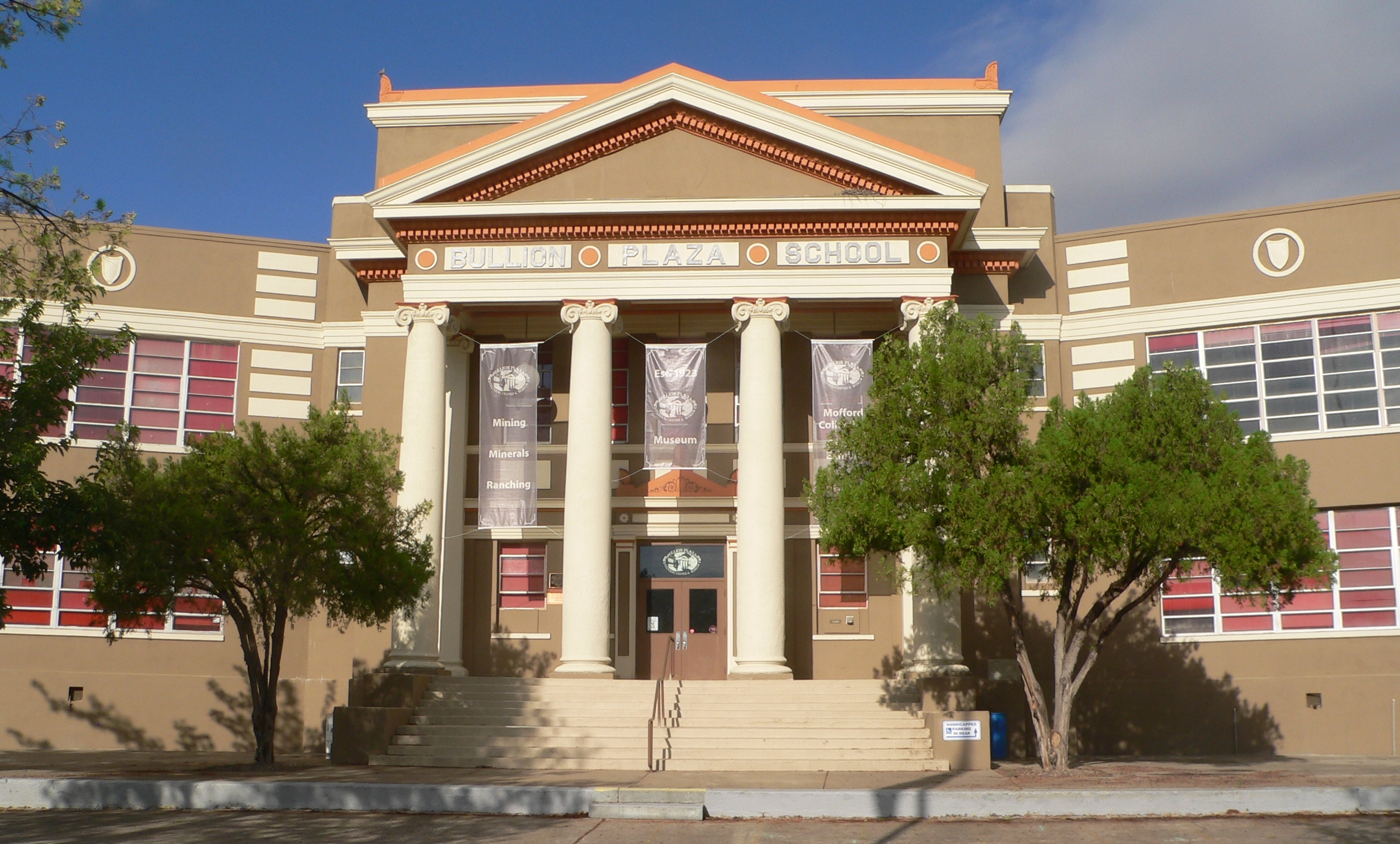 Bullion Plaza School, located at 131 N. Plaza Circle Drive in Miami, Arizona: central portion, seen from the east-southeast.